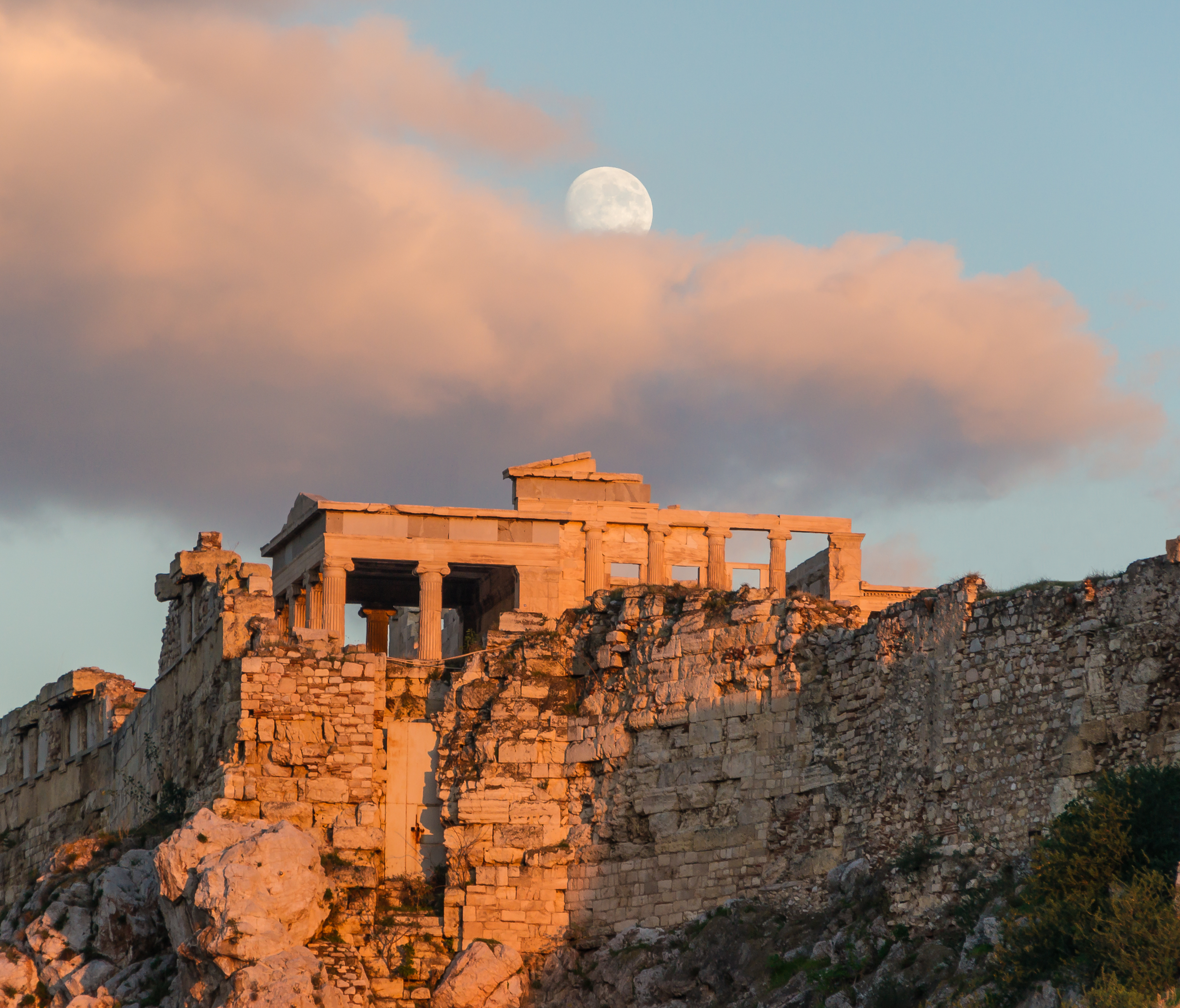 Acropolis (Erechtheum) of Athens, from West, evening light. Moon.